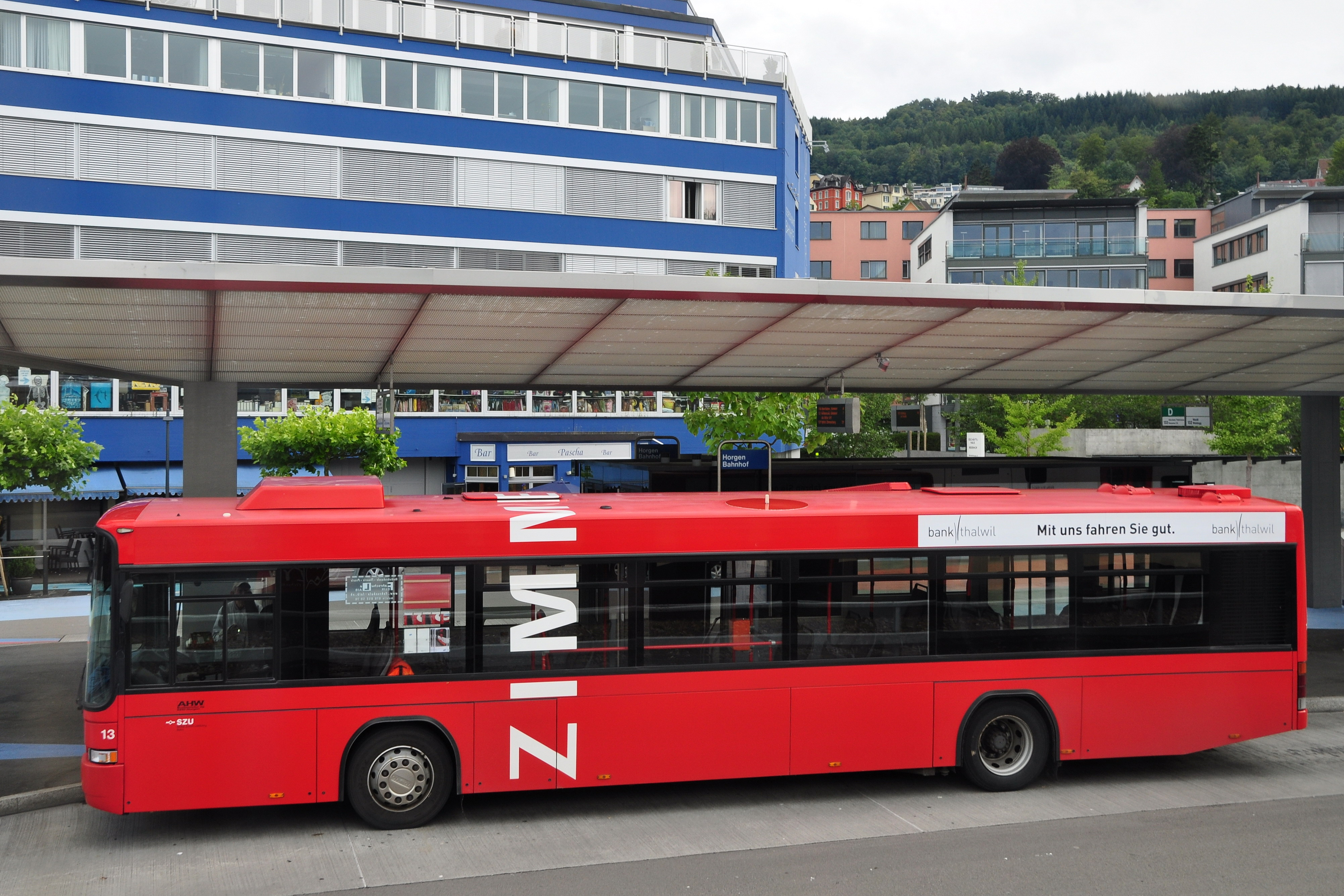 Bus of the Zimmerberg bus line at the train station in Horgen (Switzerland)